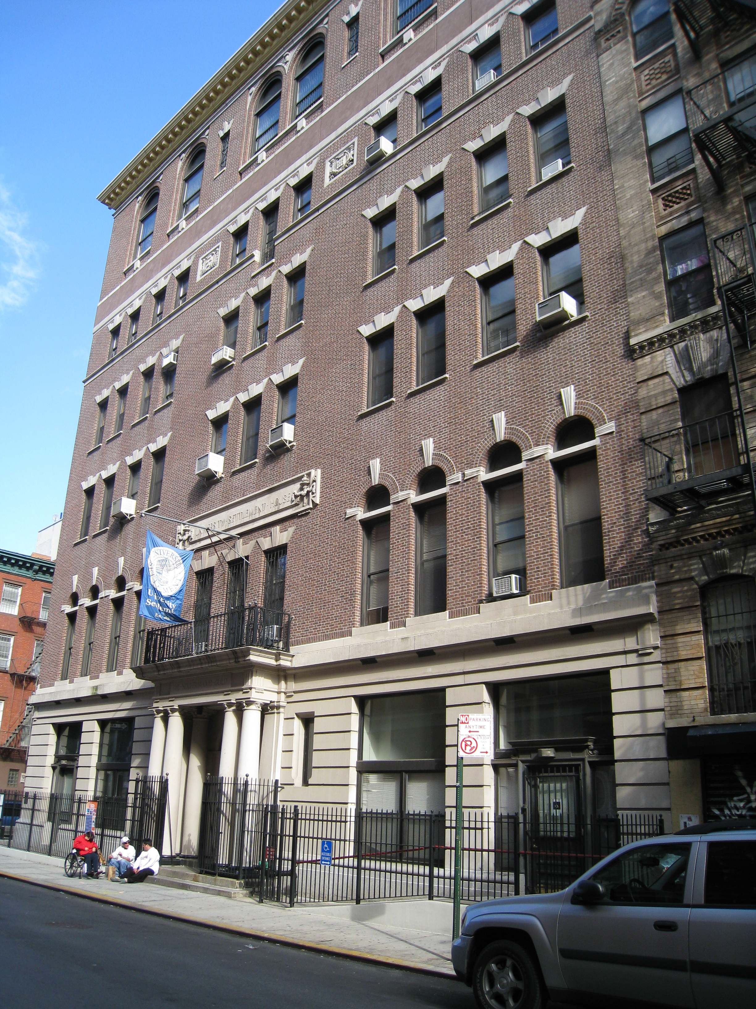 This photo is of Wikis Take Manhattan goal code F5, University Settlement House.